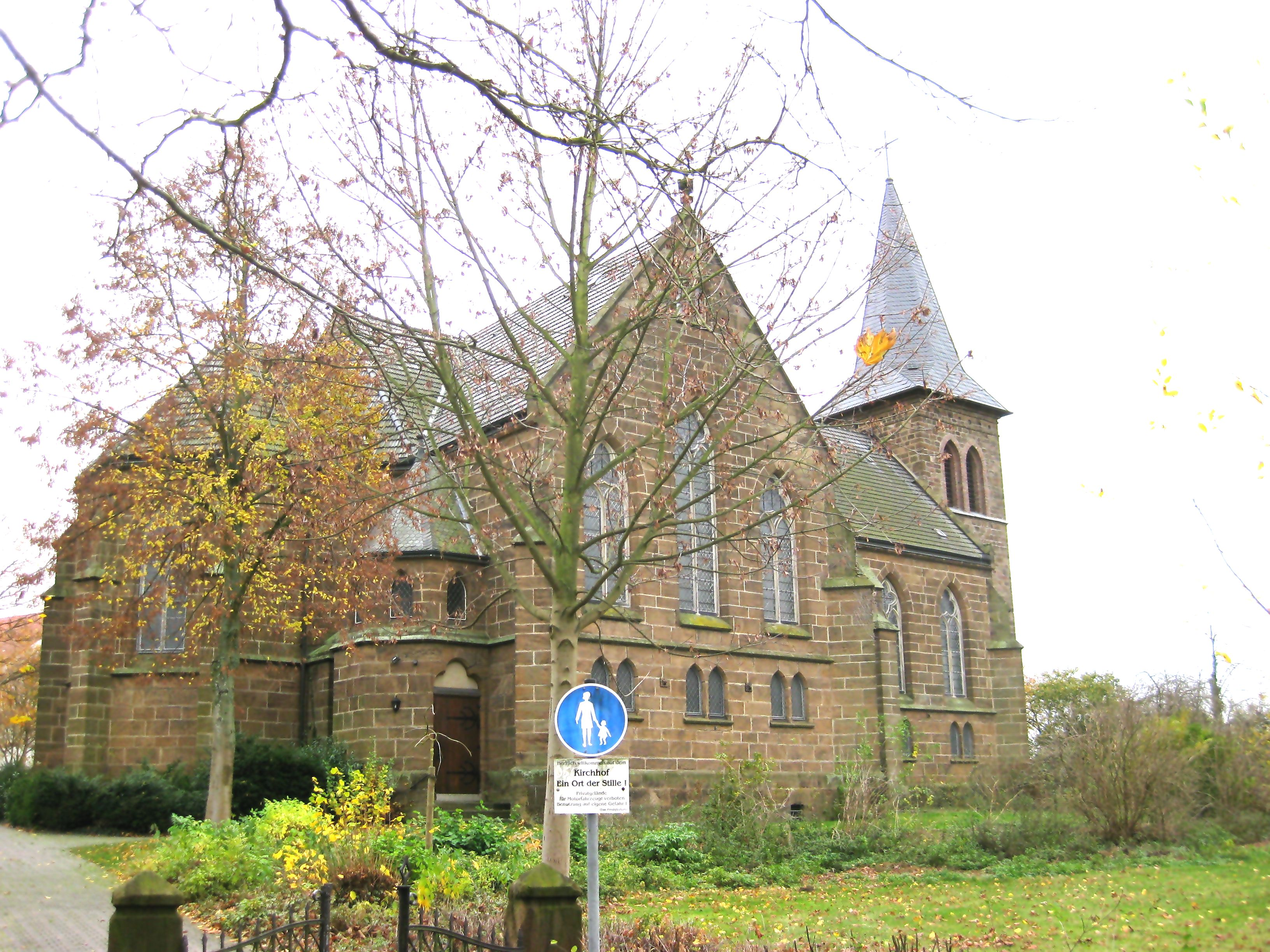 lutheran parish church in Bad Oeynhausen-Eidinghausen